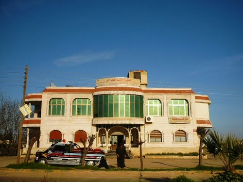 المشفى الوحيد في كرناز 2012